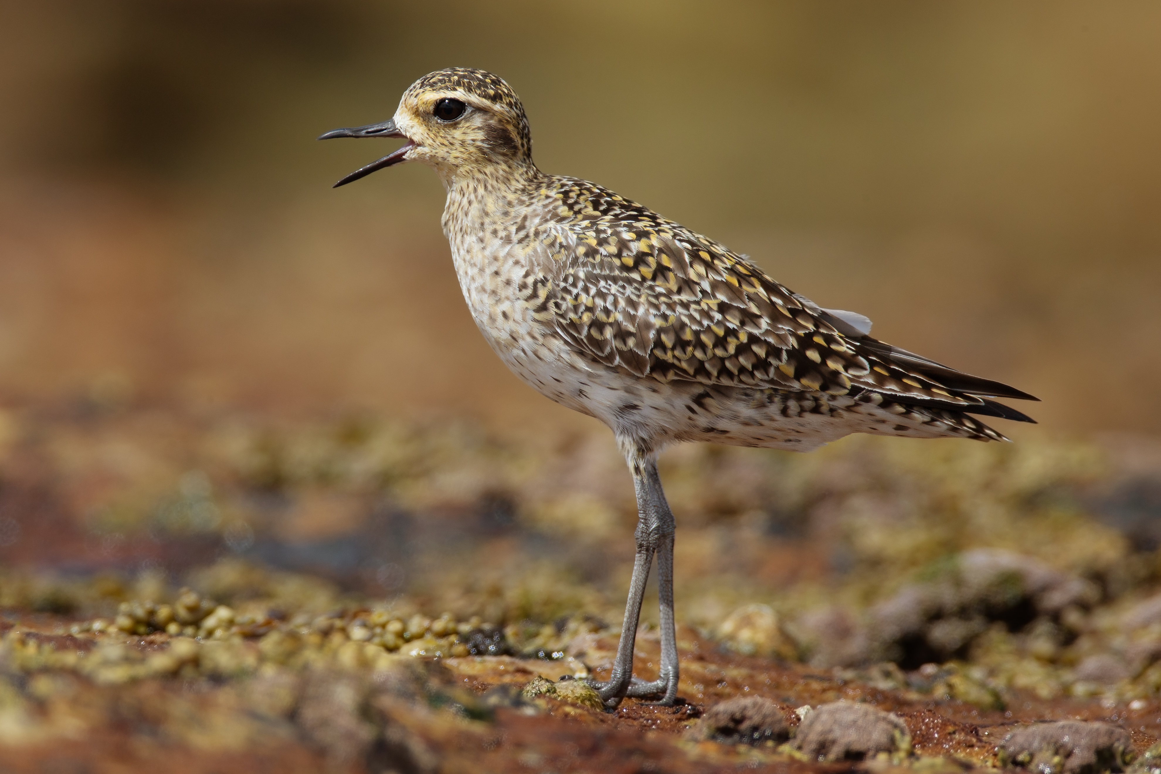 Pacific Golden Plover (Pluvialis fulva), Boat Harbour, Kurnell, Sydney, New South Wales, Australia